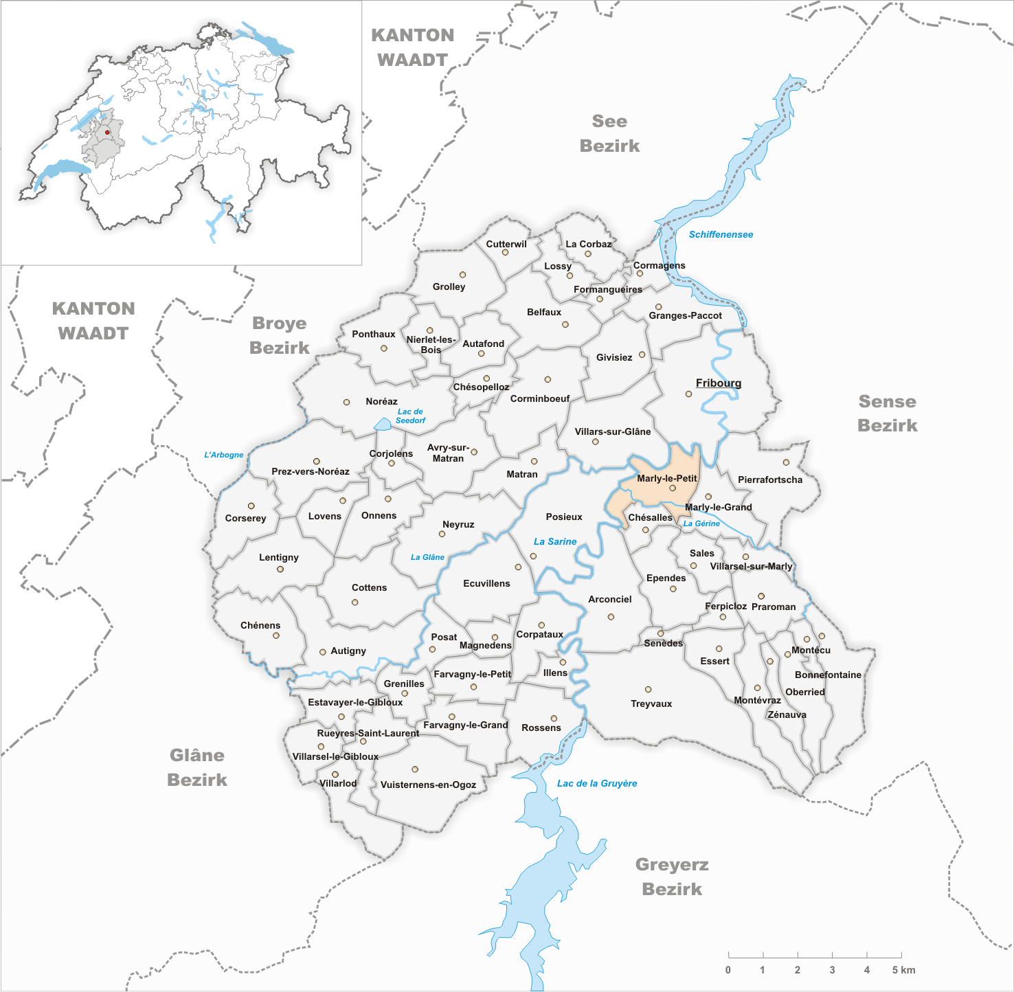 Municipality Marly-le-Petit Artist: Tschubby